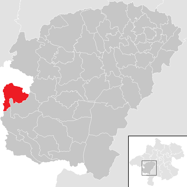 District Vöcklabruck